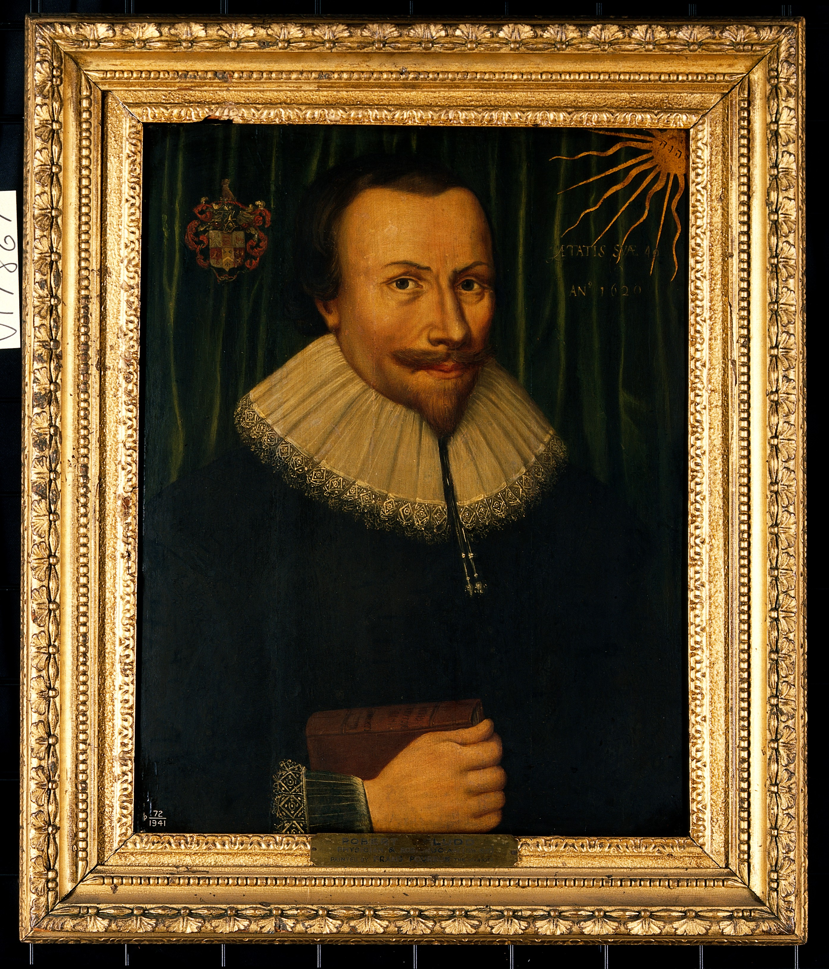 Robert Fludd. Oil painting. Iconographic Collections